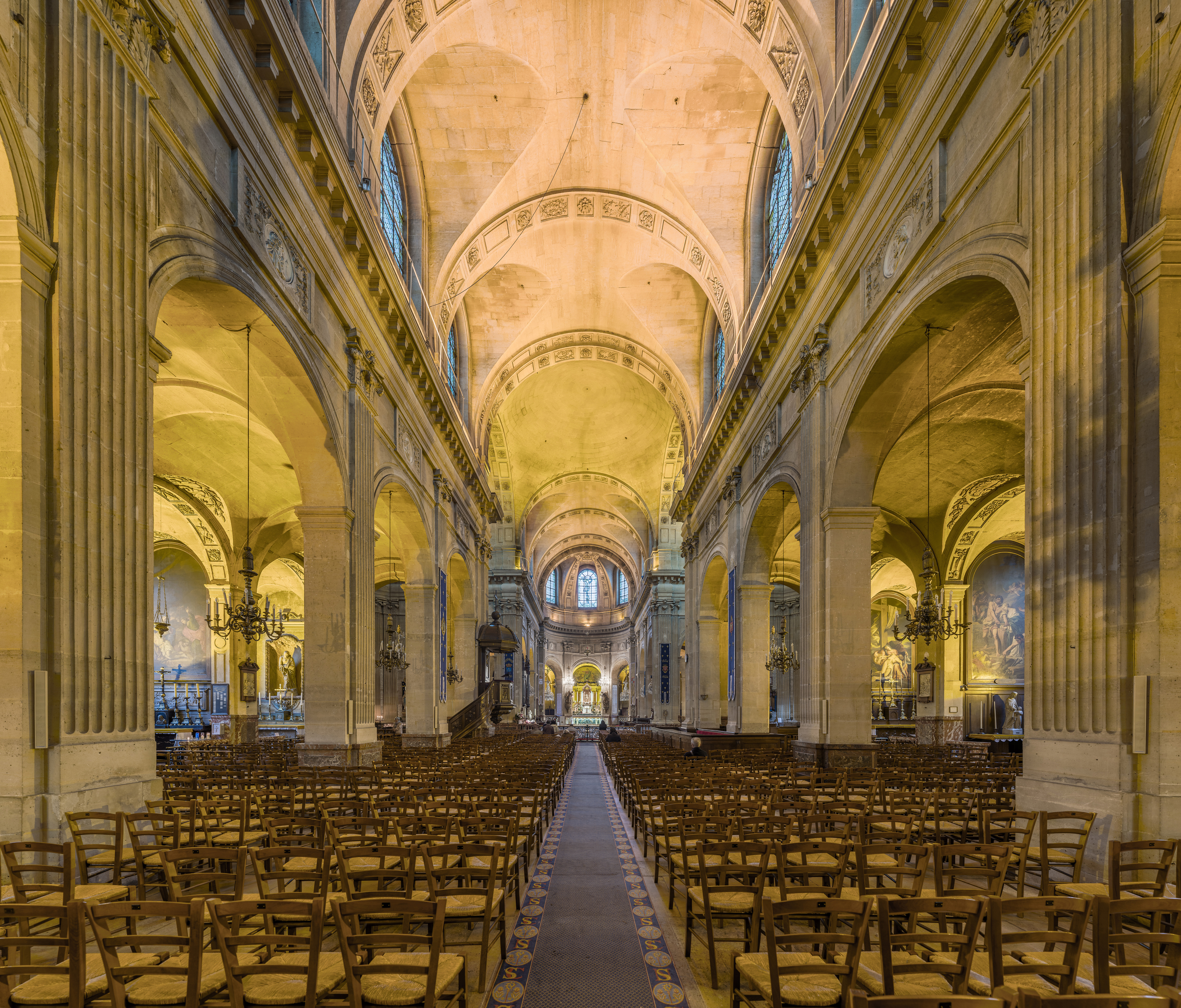 The nave of Saint-Nicolas-du-Chardonnet in Paris, France.